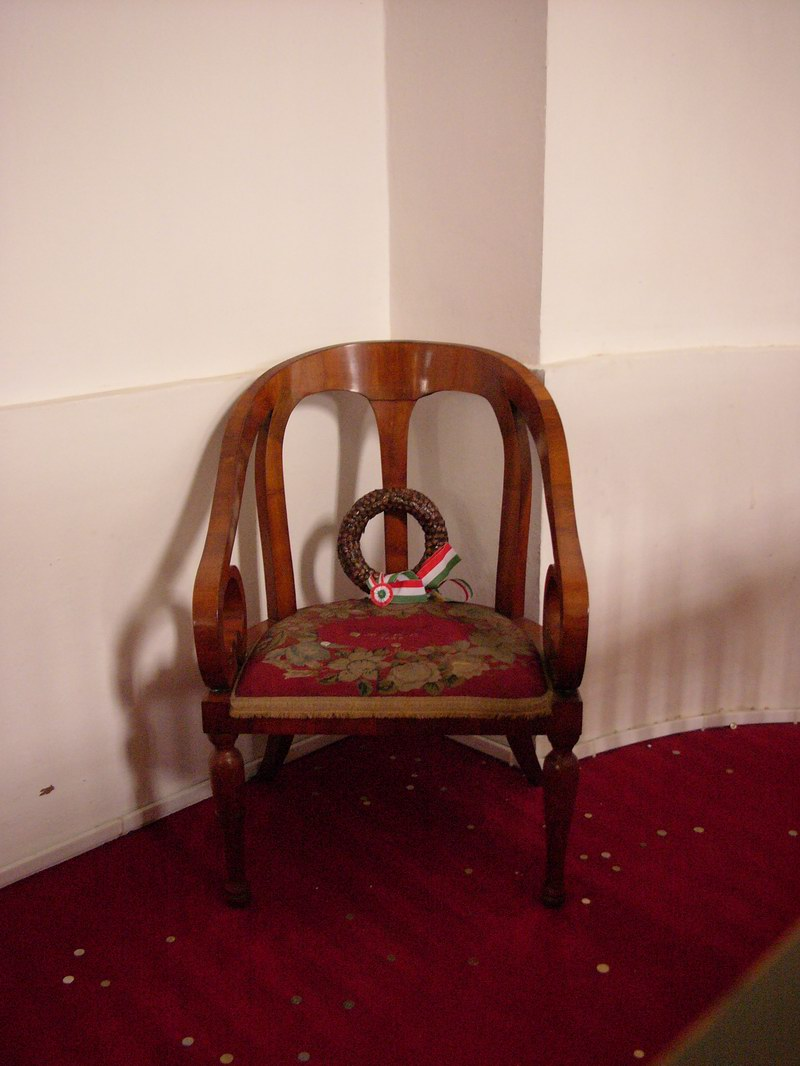 Lajos Kossuth's chair (1848) in the Great Church of Debrecen, Hungary